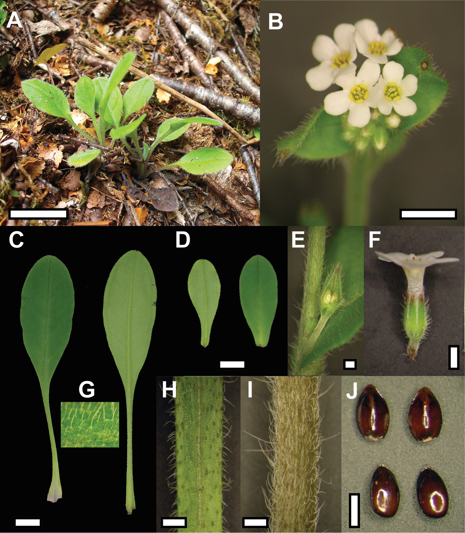 Plant of Myosotis mooreana in situ (A) and close-up view of vegetative and reproductive structures (B Inflorescence C Rosette leaves D Stem leaves E Fertilised flower at leaf axil F Flower G Rosette leaf indumentum, upper surface H Rosette leaf petiole I Stem J Nutlets). Bar = 1 cm in A, C & D, 5 mm in B, 1 mm in E, F, H, I, J. Material from WELT SP092756/A.